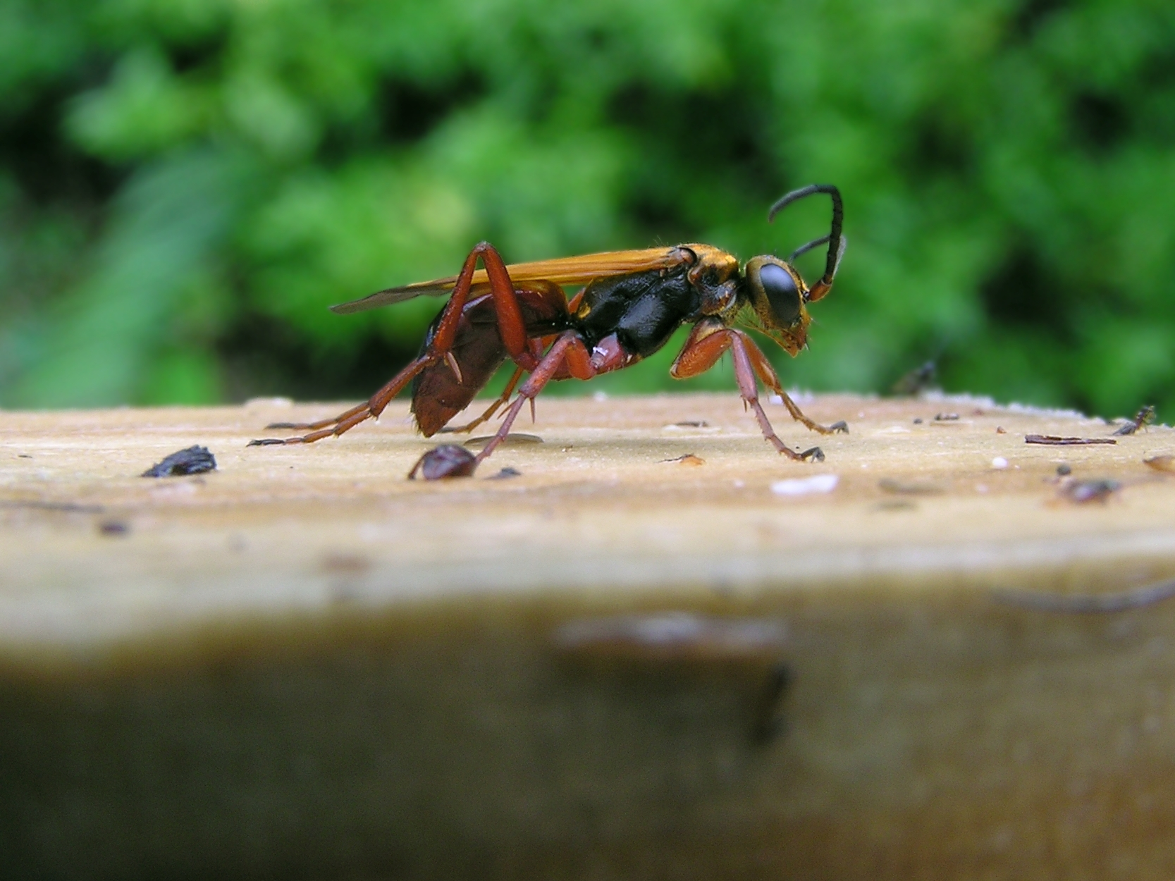 Small (approx. 13mm) female wasp (family: Pompilidae, possibly Priocnemis conformis) drying out after being rescued from a pool of water. Wellington, New Zealand